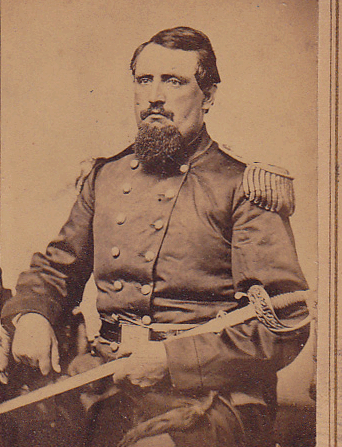 Cdv of Colonel Dudley Donnelly, 28th New York Infantry. Mortally wounded at the battle of Cedar Mountain in August, 1862.